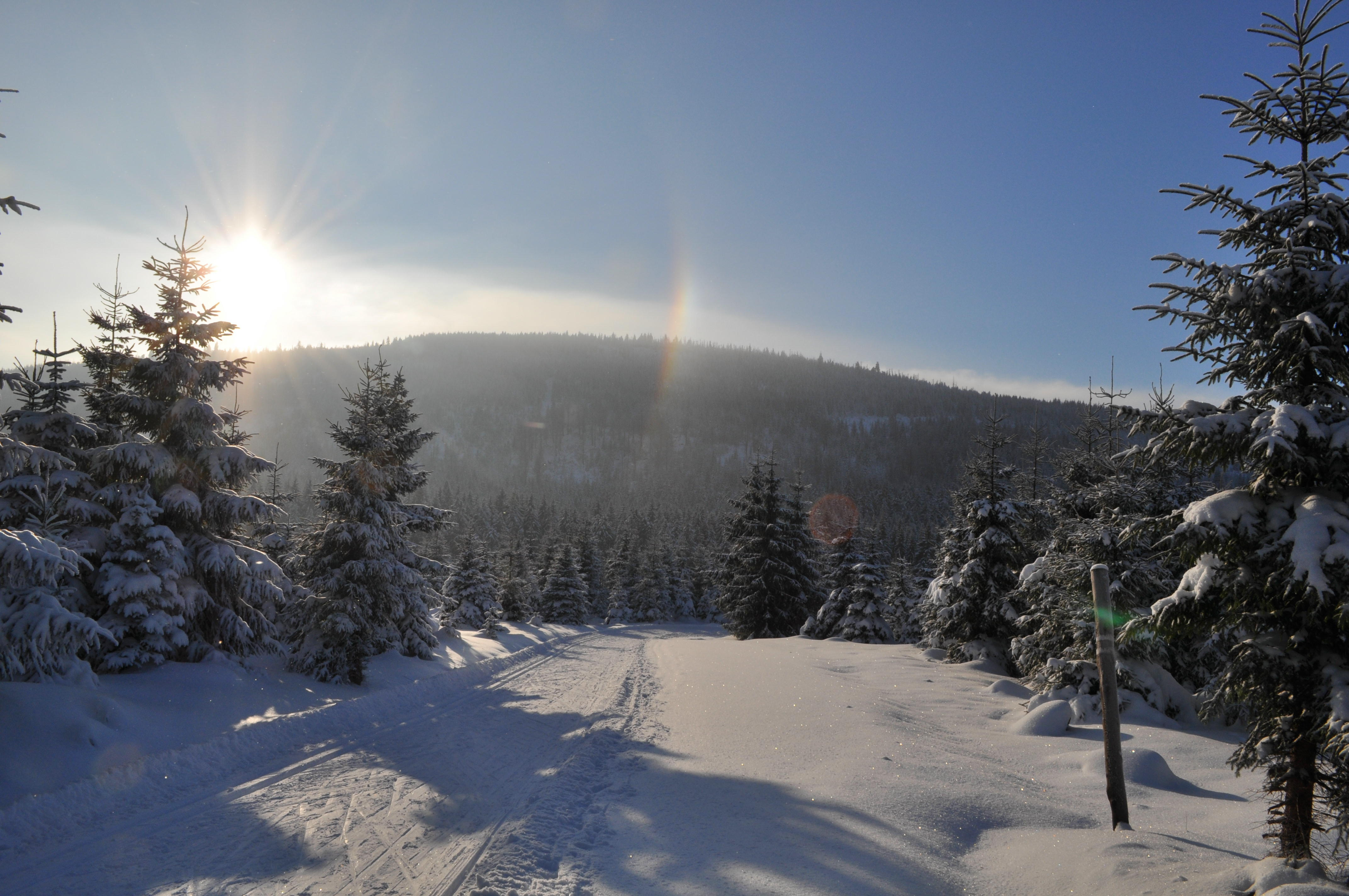 Jizera Mountain in winter with solar halo effect Česky: Hora Jizera se slunečním halo efektem